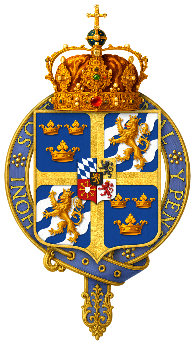 Gartered coat of arms of Charles XI, King of Sweden, KG